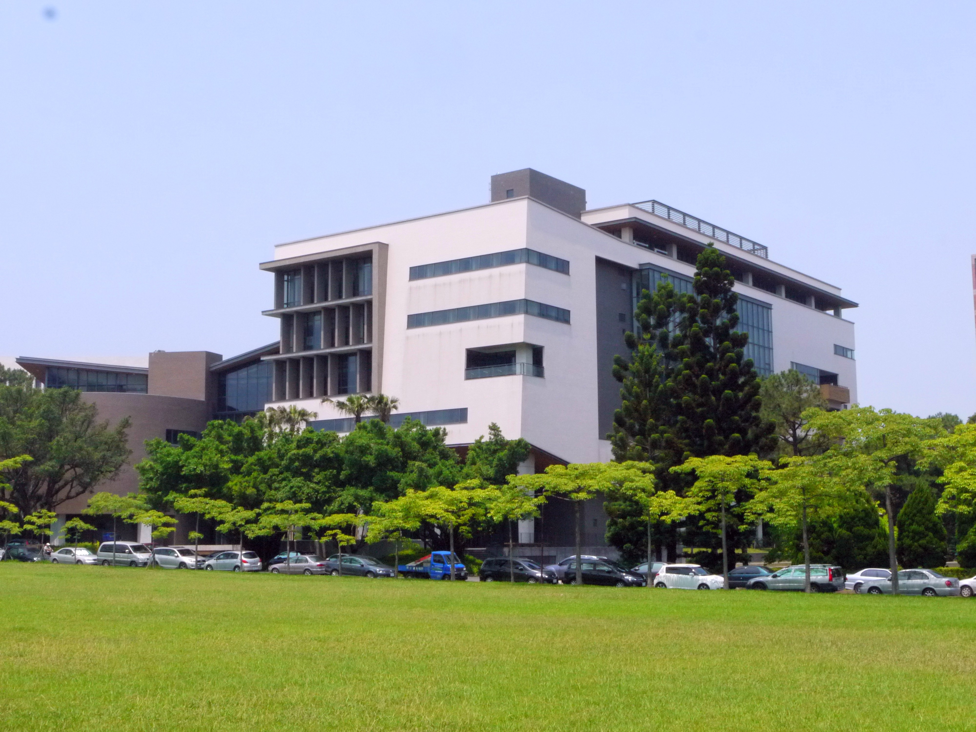 The library building in National Tsing Hua University中文（台灣）: 國立清華大學圖書館旺宏館（2012年）。